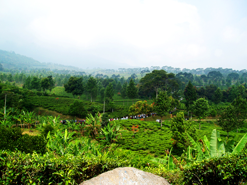 Puncak is located in Bogor, near the capital city of Jakarta.